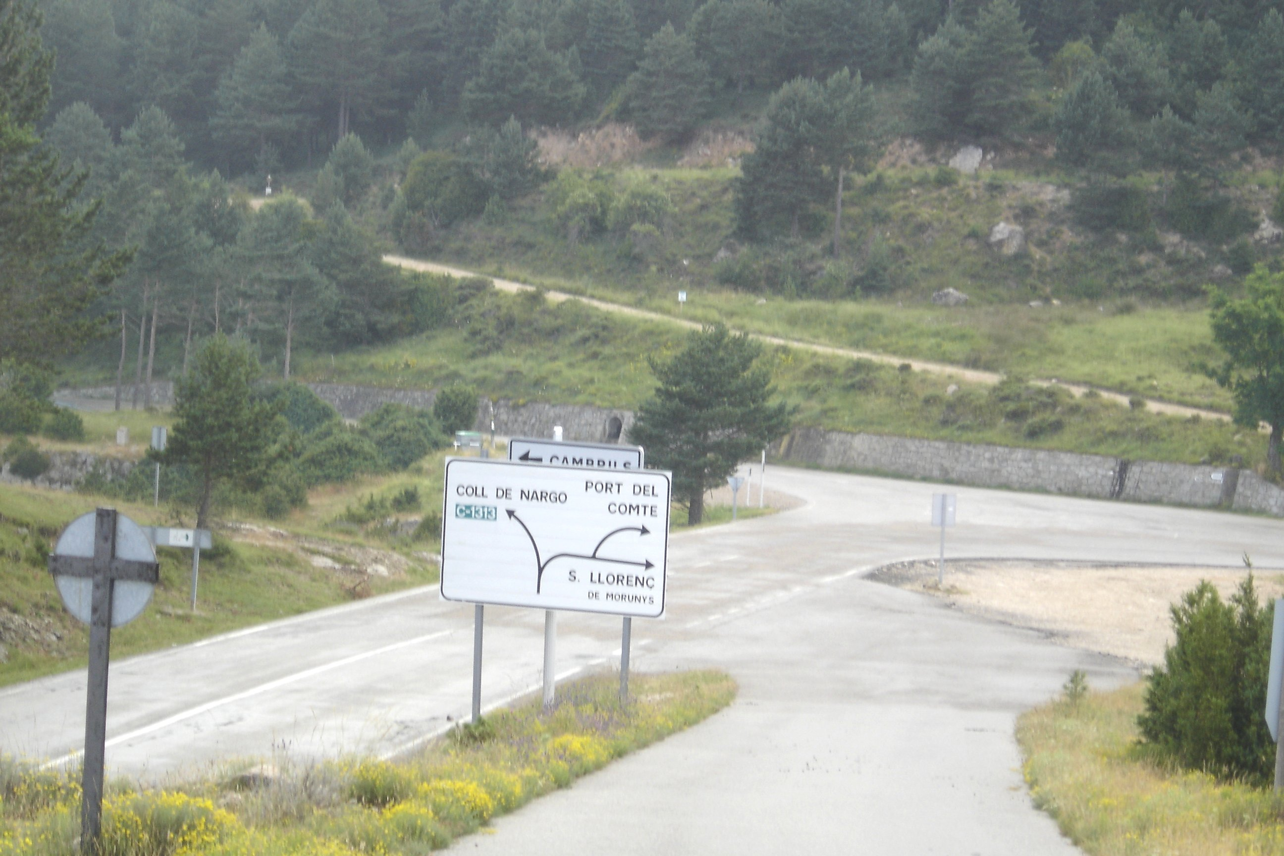 Coll de Jou (Solsonès).